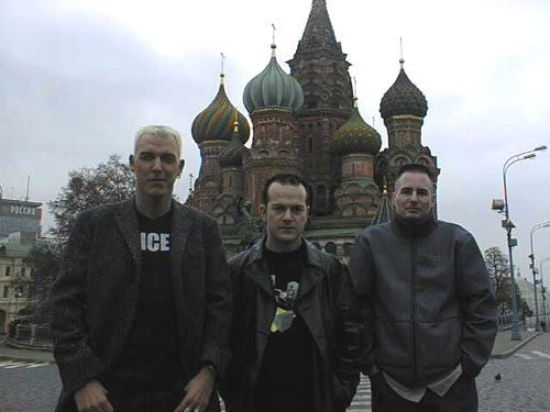 Scooter band during 2nd Chapter (1998-2002). HP Baxxter, Rick J Jordan, Axel Coon. Band in Moscow, October 22-26, 2000.